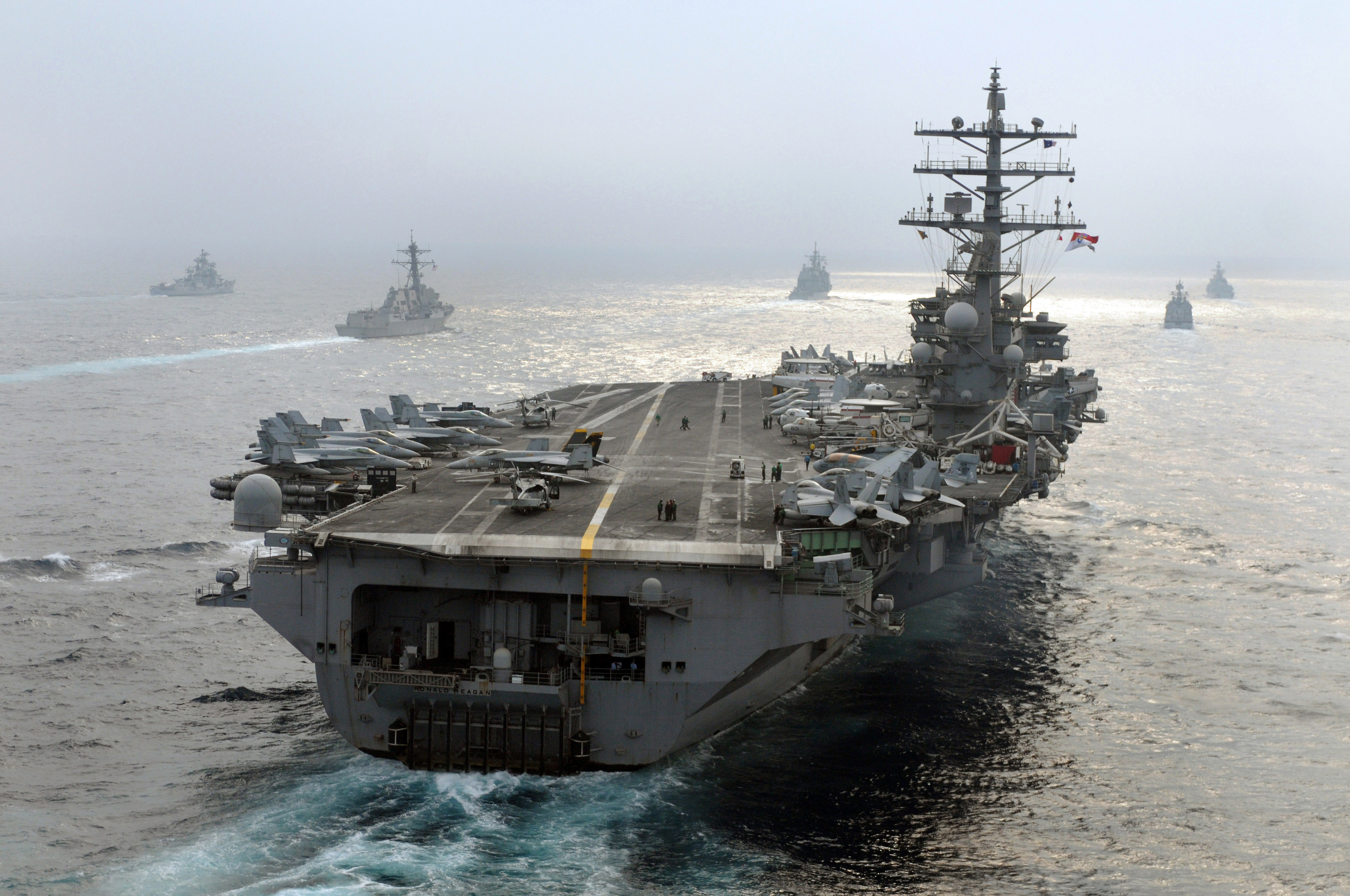 INDIAN OCEAN (Oct. 22, 2008) The Ronald Reagan Carrier Strike Group and the Indian navy's Western Fleet sail in formation during a passing exercise (PASSEX). The PASSEX symbolized the completion of Malabar 08. Malabar was designed to increase cooperation between the Indian and U.S. Navy while enhancing the cooperative security relationship between India and the U.S. (U.S. Navy photo by Senior Chief Mass Communication Specialist Spike Call/Released)